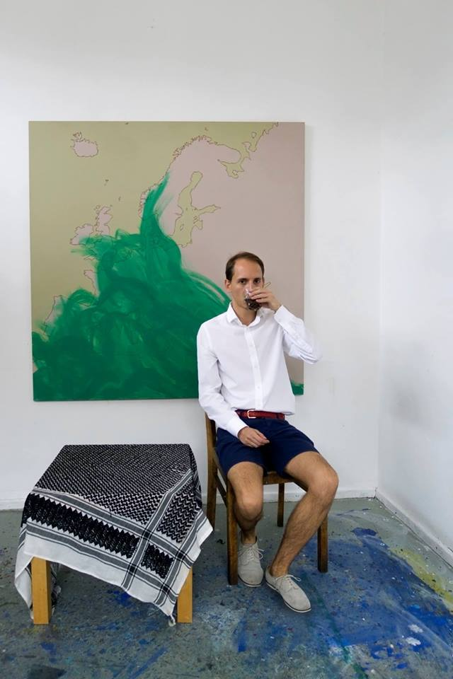 painter in his atelier